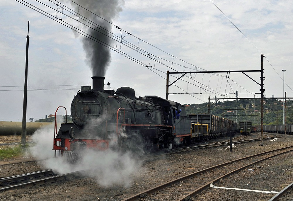 Saiccor No. 2 - Ex SAR Class 19D No. 2633 at the Saiccor Exchange Yard in Umkomaas.